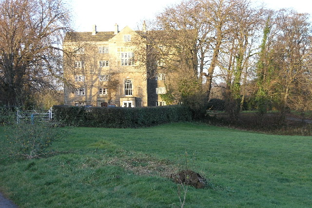 Worksop Manor Lodge. Manor Lodge, possibly built as a hunting lodge in the 16th century. (A. Nicholson, 2000).